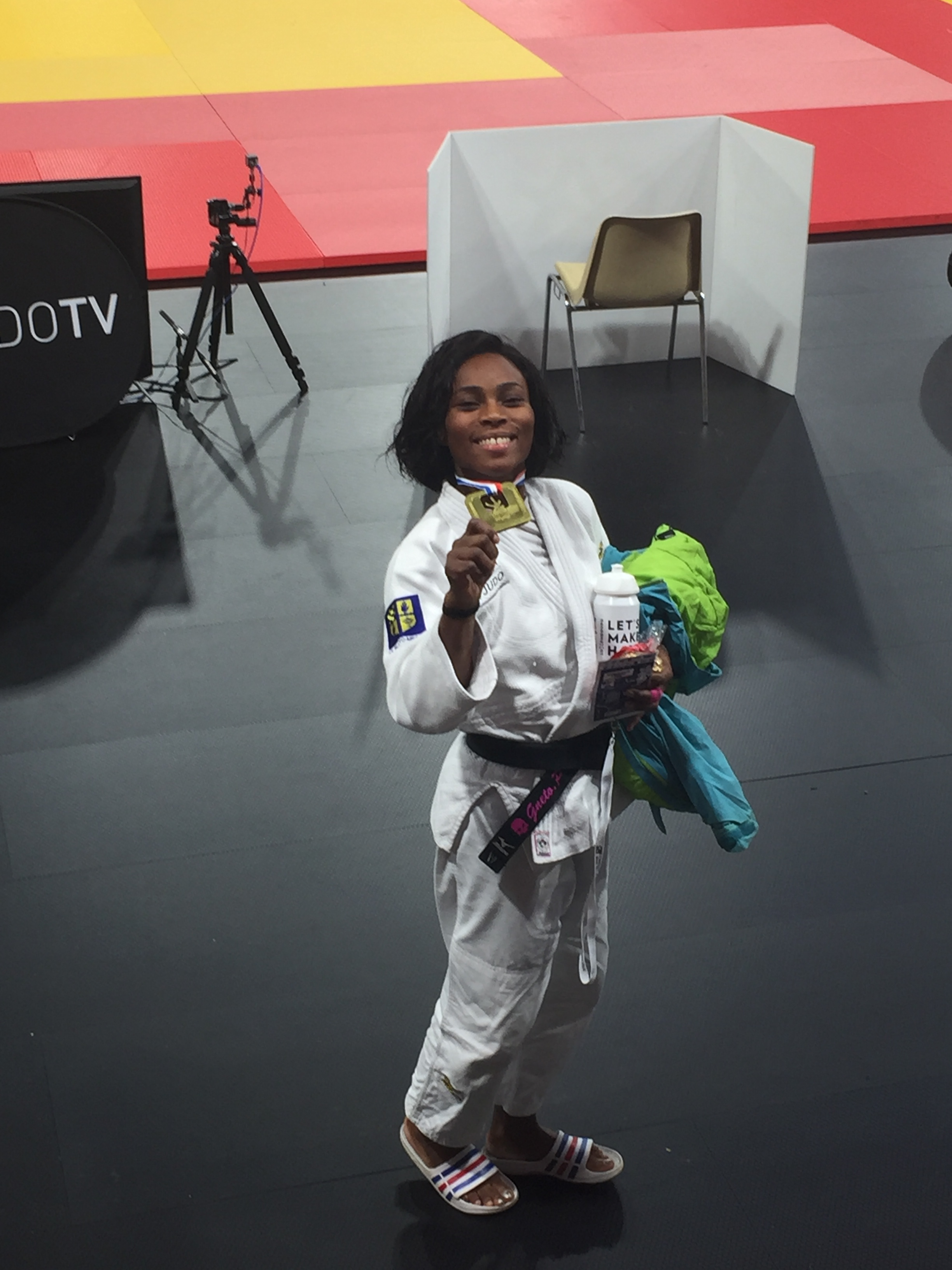 Priscilla Gneto showing her bronze medal during 2019 France Championship in Amiens